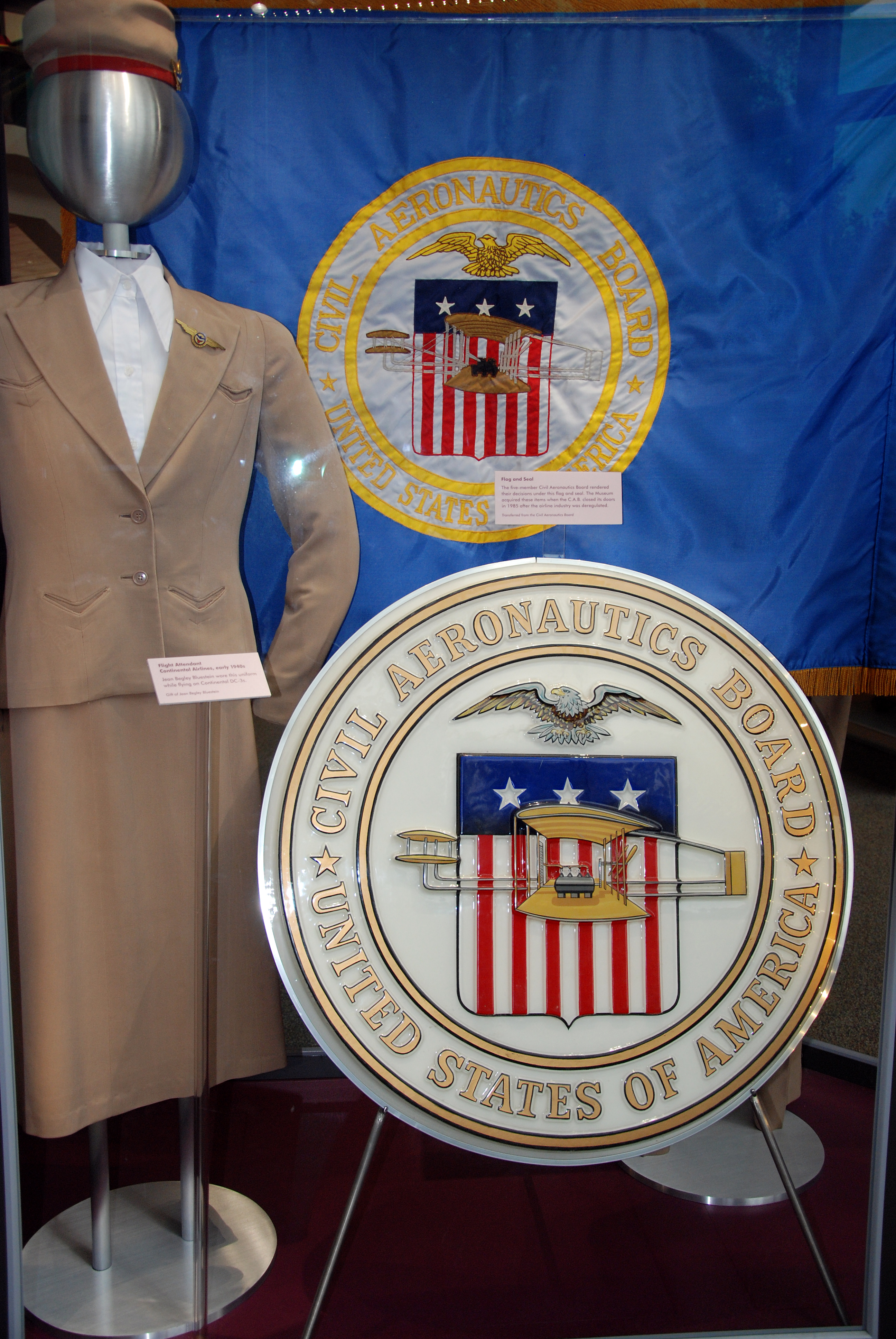 Civil Aeronautics Board flag and seal, as seen in the National Air and Space Museum. (The uniform at left is that of a Continental Airlines flight attendant.)